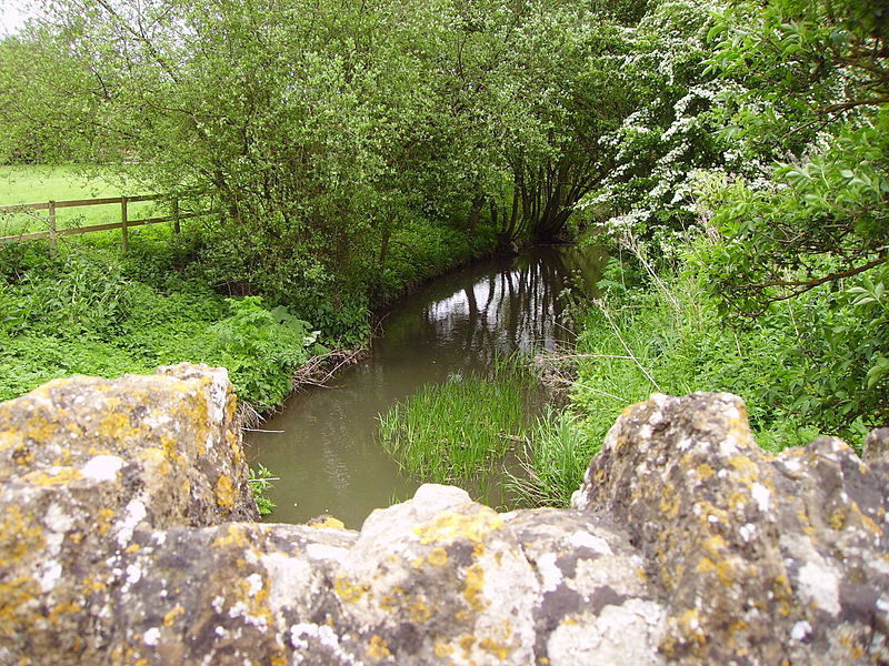 River Ock at Charney Bassett, Berkshire